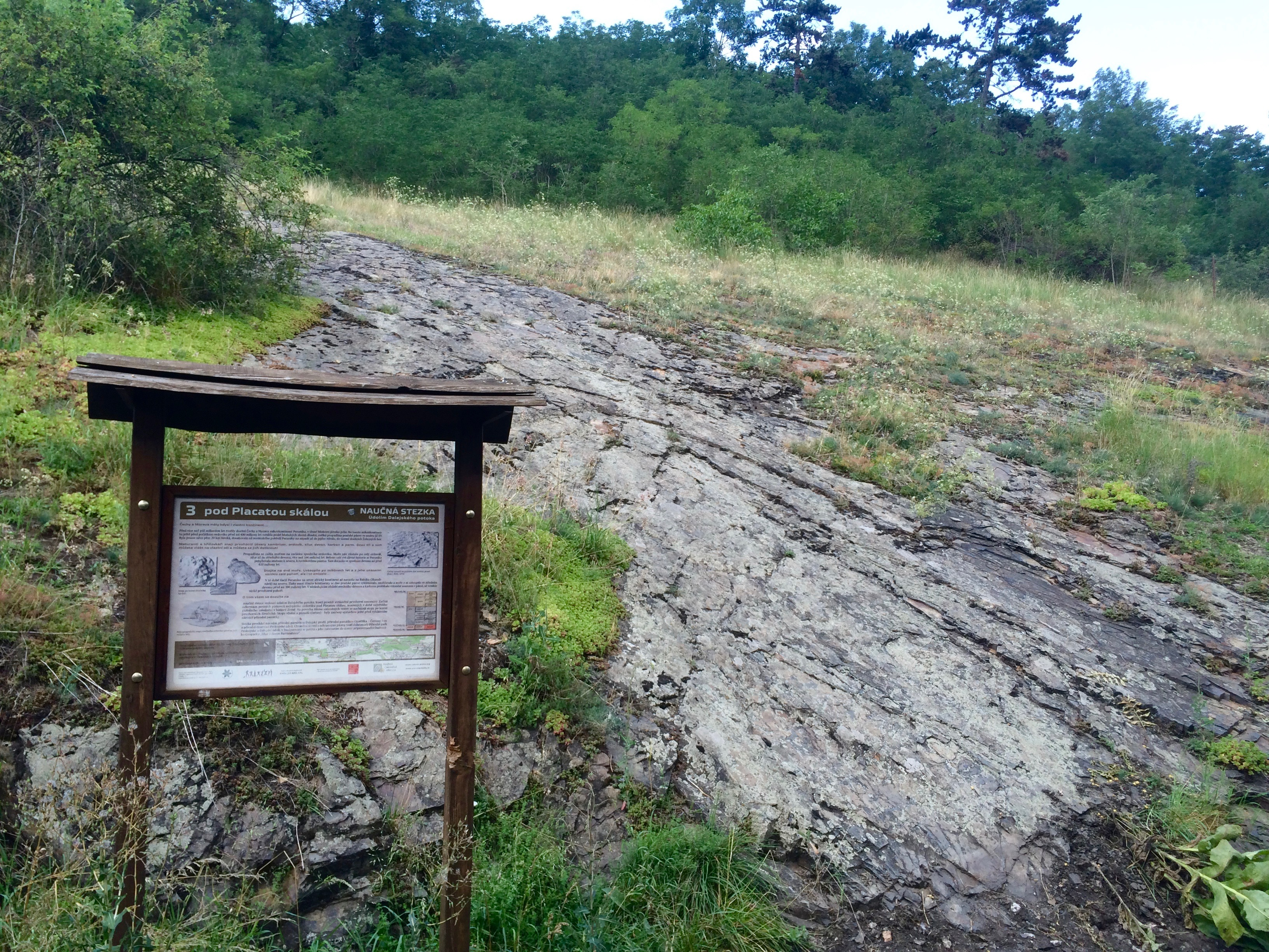 Placatá skála (Flat rock) in the Dalejský potok (Dalejský stream) Valley in Prague